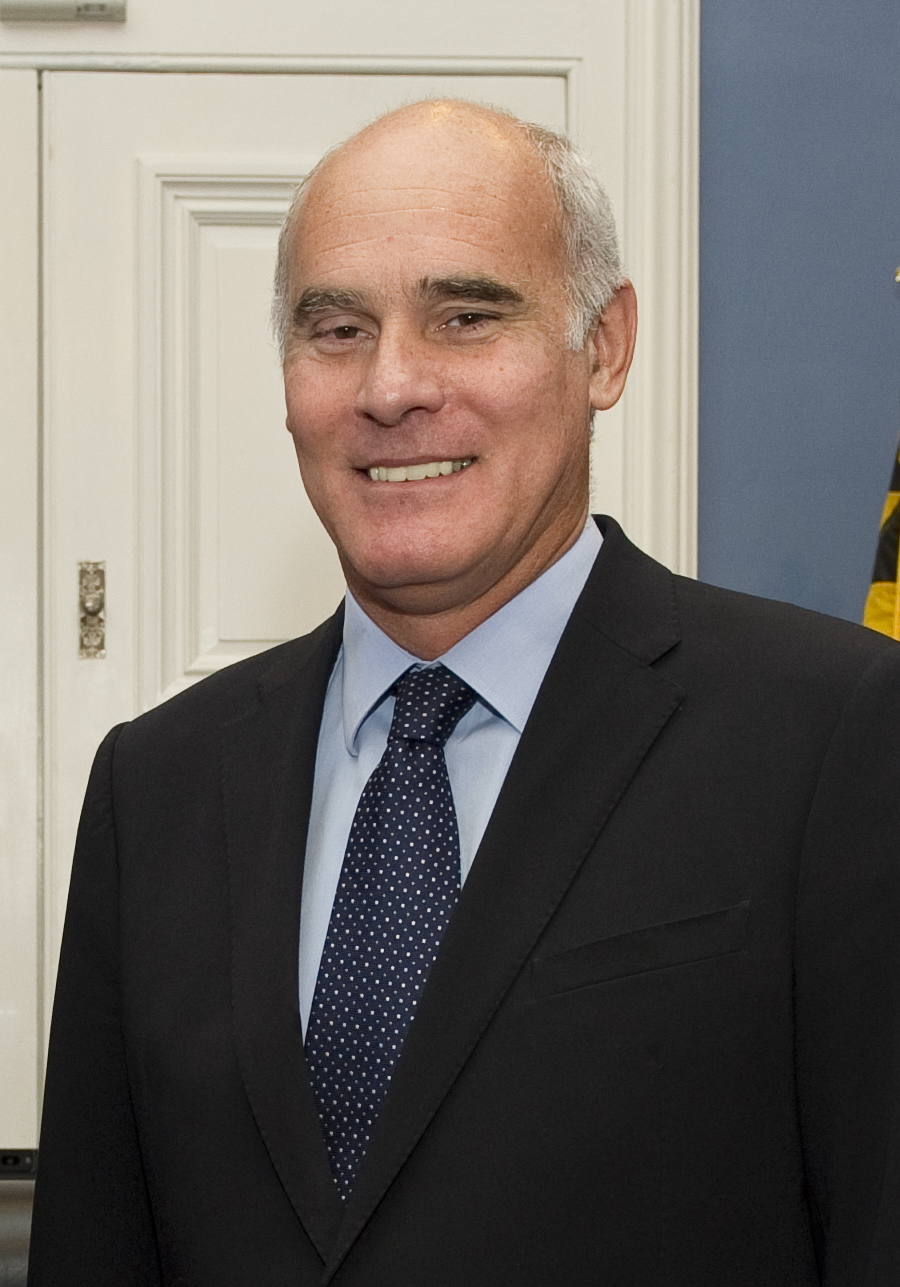 João Vale de Almeida, European Union ambassador to the United States